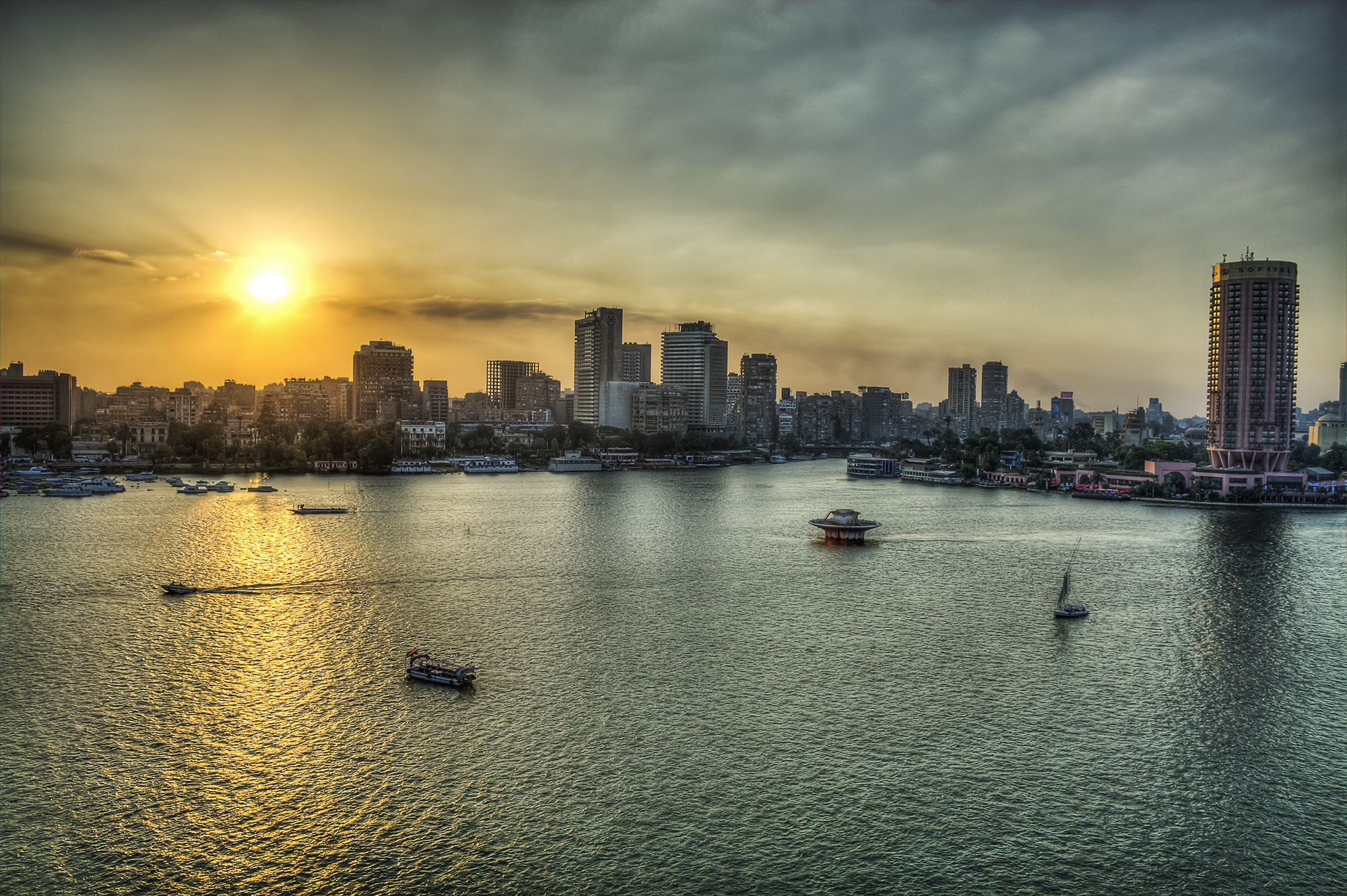 small boats sailing in the Nile river at sunset